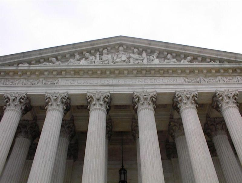 The top of the west façade of the U.S. Supreme Court Building